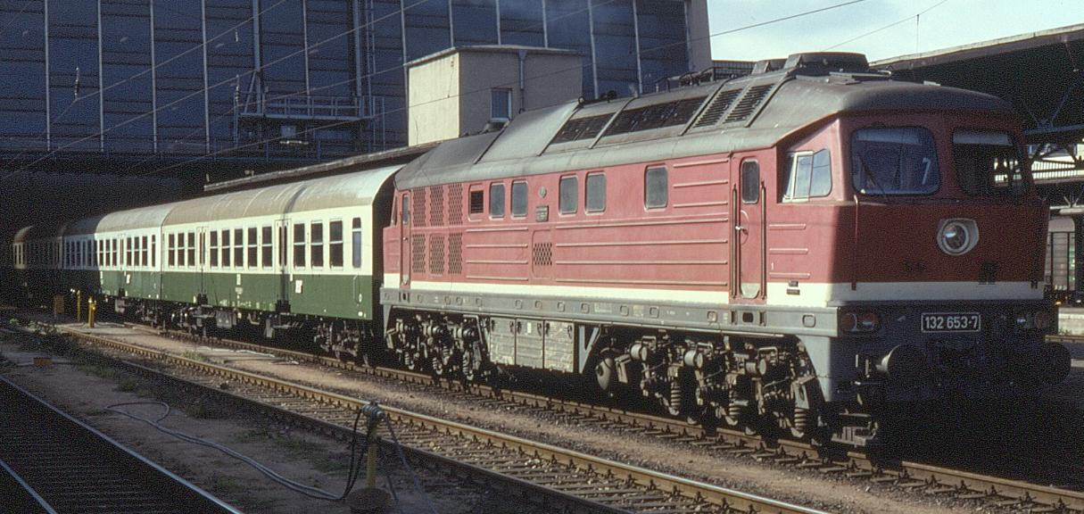 First time visit to the former East Germany was almost like visiting a different country. Staple power on many long distance trains were class 132s which soon became 232s. Seen at Chemnitz Hbf on 28 September 1991 is 132.653.